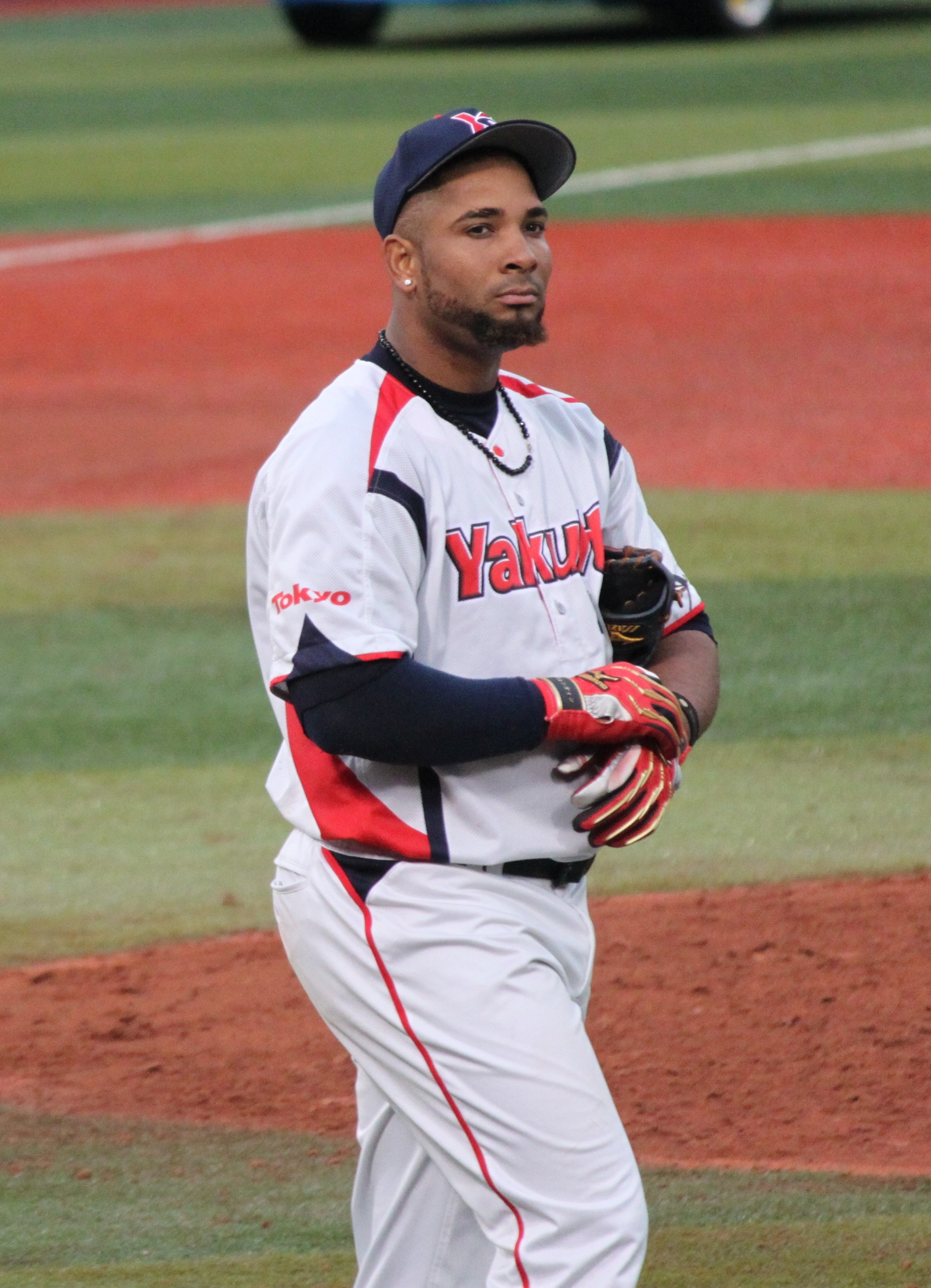 Wladimir Balentien, outfielder of the Tokyo Yakult Swallows, at Yokohama Stadium.